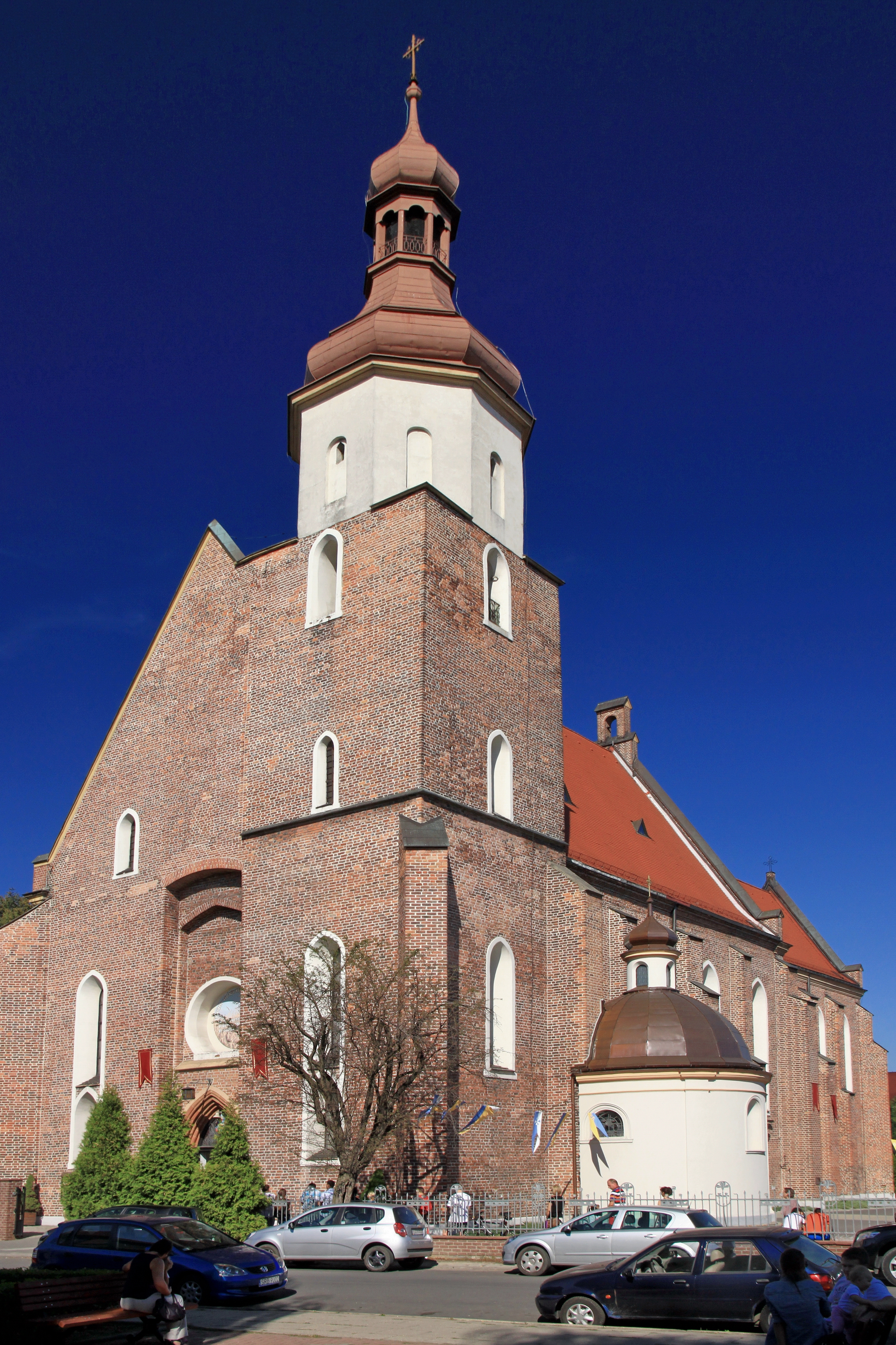 Żory, Saints Philip and James parish church, build in 15th century, 2nd half of 17th century, 1947